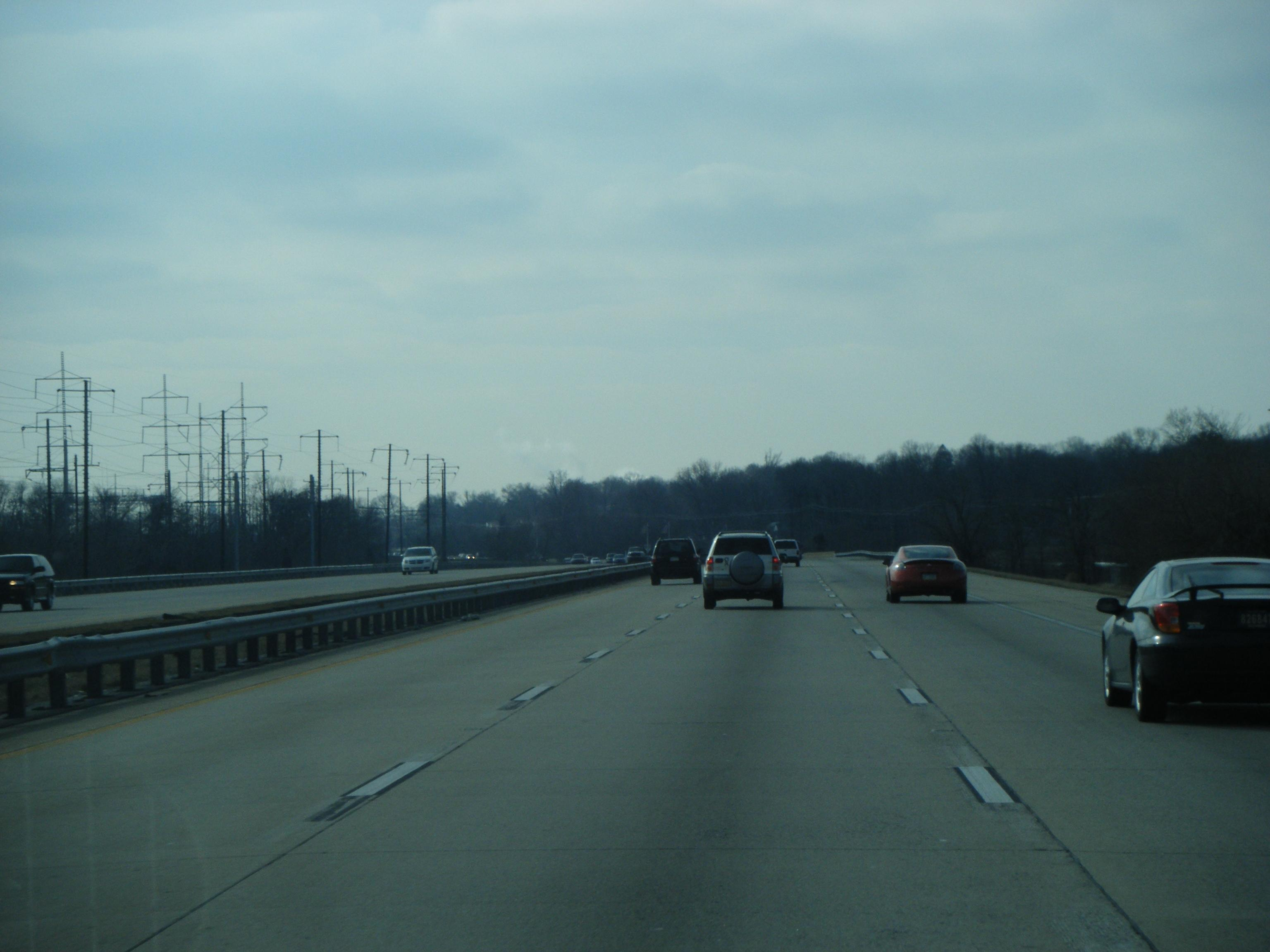 Southbound Interstate 495 along the Delaware River between Claymont and Edgemoor, Delaware